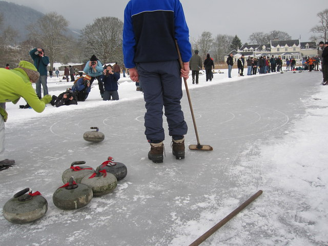 Curling on Lake of Menteith: A cold Saturday January 9th 2010 with 10" of ice on a frozen Lake of Menteith. The lake had sufficient thickness of ice for curling for the first time since 1979 and hundreds of people appeared to see the spectacle and walk over to Inchmahome Priory.